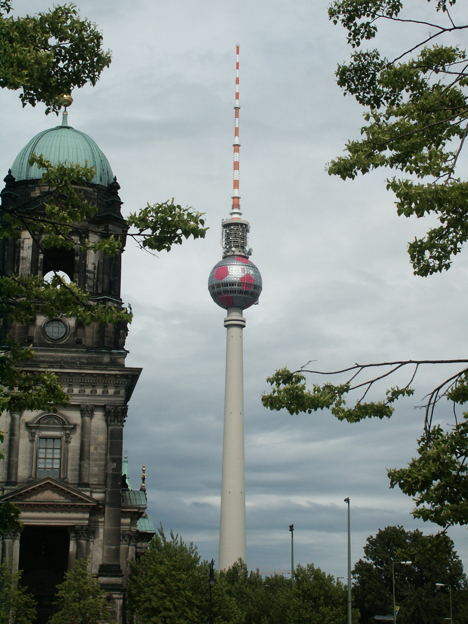 TV tower in Berlin with WM 2006 decoration / Fernsehturm Berlin mit WM-Dekoration 2006